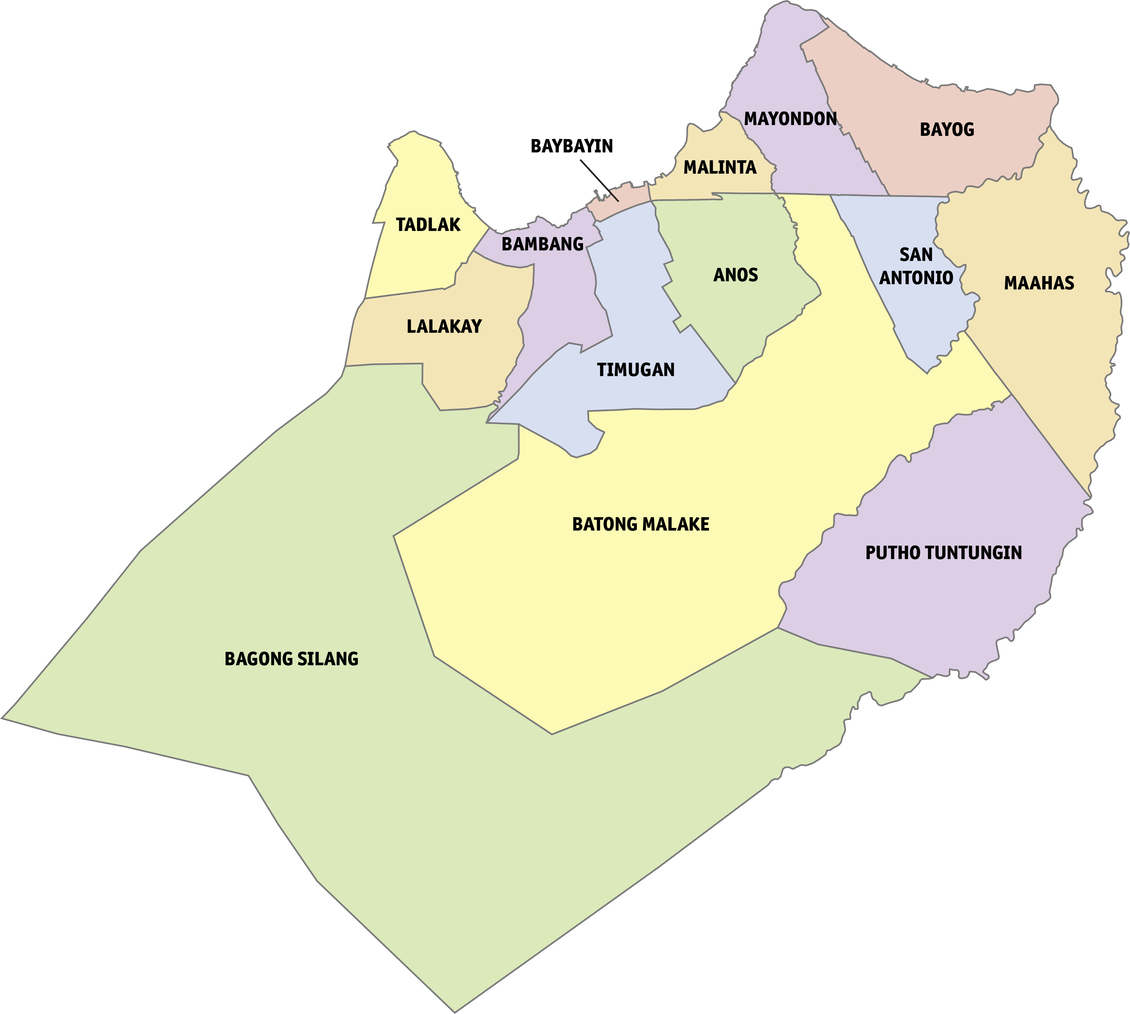 Political map of Los Baños, Laguna